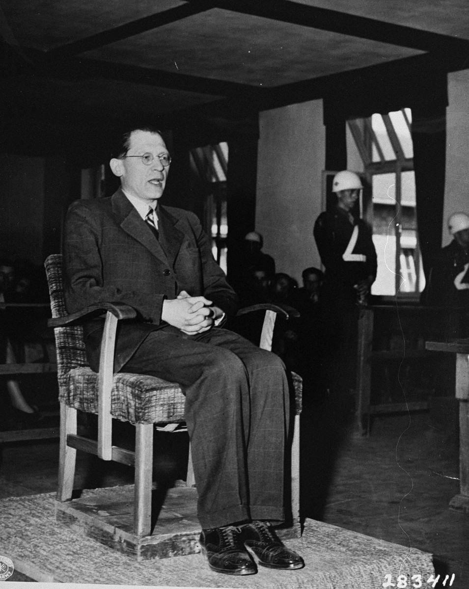 Eugen Kogon testifies for the prosecution, Buchenwald trial, Dachau, Germany